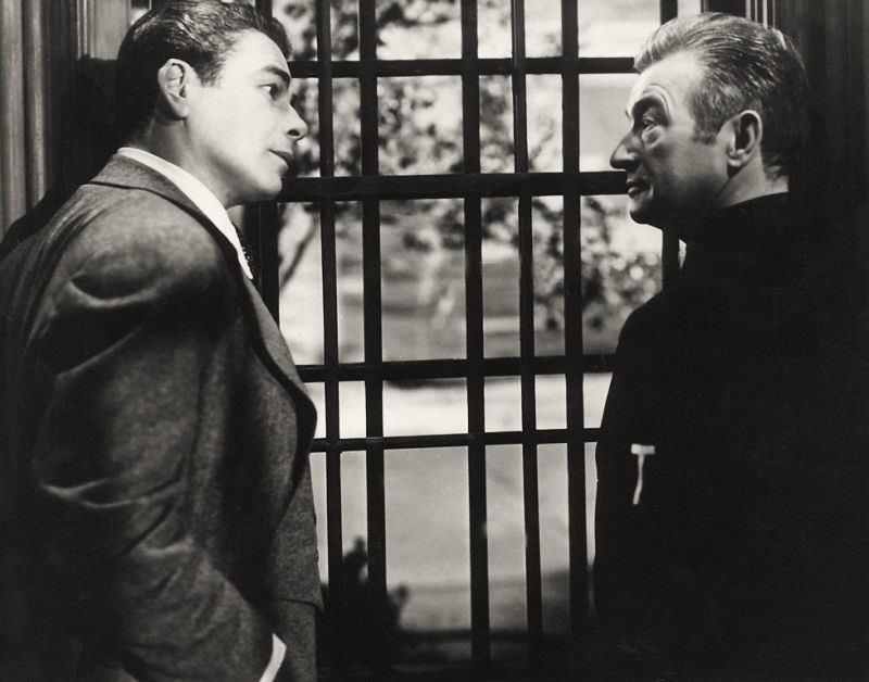 Paul Muni (left) and Claude Rains in Angel on My Shoulder (1946) - cropped screenshot